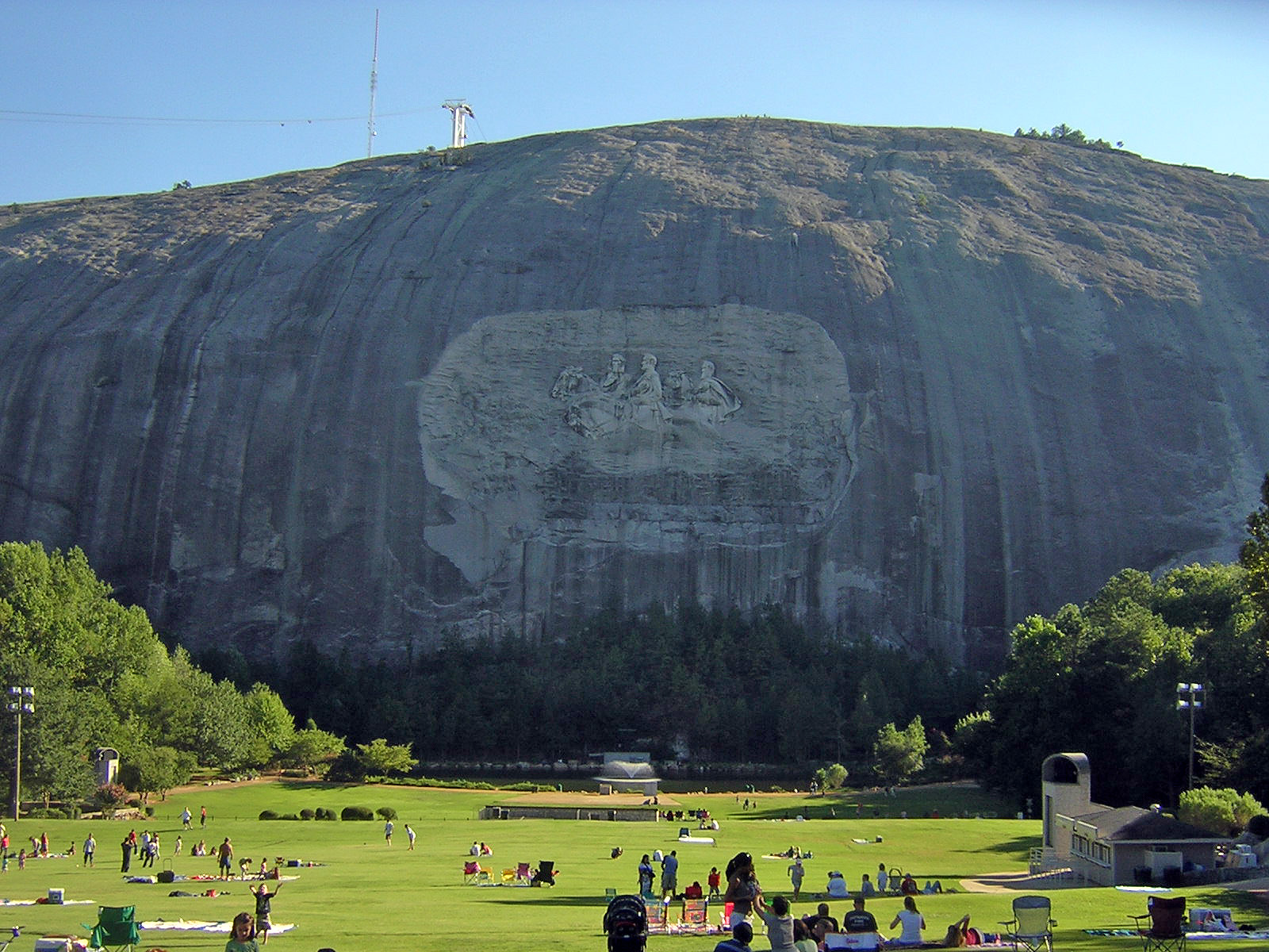 Detail of the mountain and carving with park visitors. Photo taken by the original uploader, KyleAndMelissa22, on 9/15/2007, at Stone Mountain, Georgia, United States.